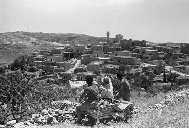 View of the village al-Maliha (Malha) in the last 1940's or early 1950's from the north looking southwards